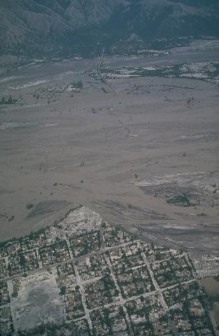 Lahars from Pinatubo volcano fill the broad Santo Tomás River valley SW of the volcano. Erosion along the south bank of the river has cut into the town of San Rafael. This photo was taken a month after the end of the 1991 eruption. Lahars produced by the redistribution of thick deposits of ashfall and pyroclastic flows caused extensive long-term economic devastation and were expected to continue for as long as a decade after the eruption.